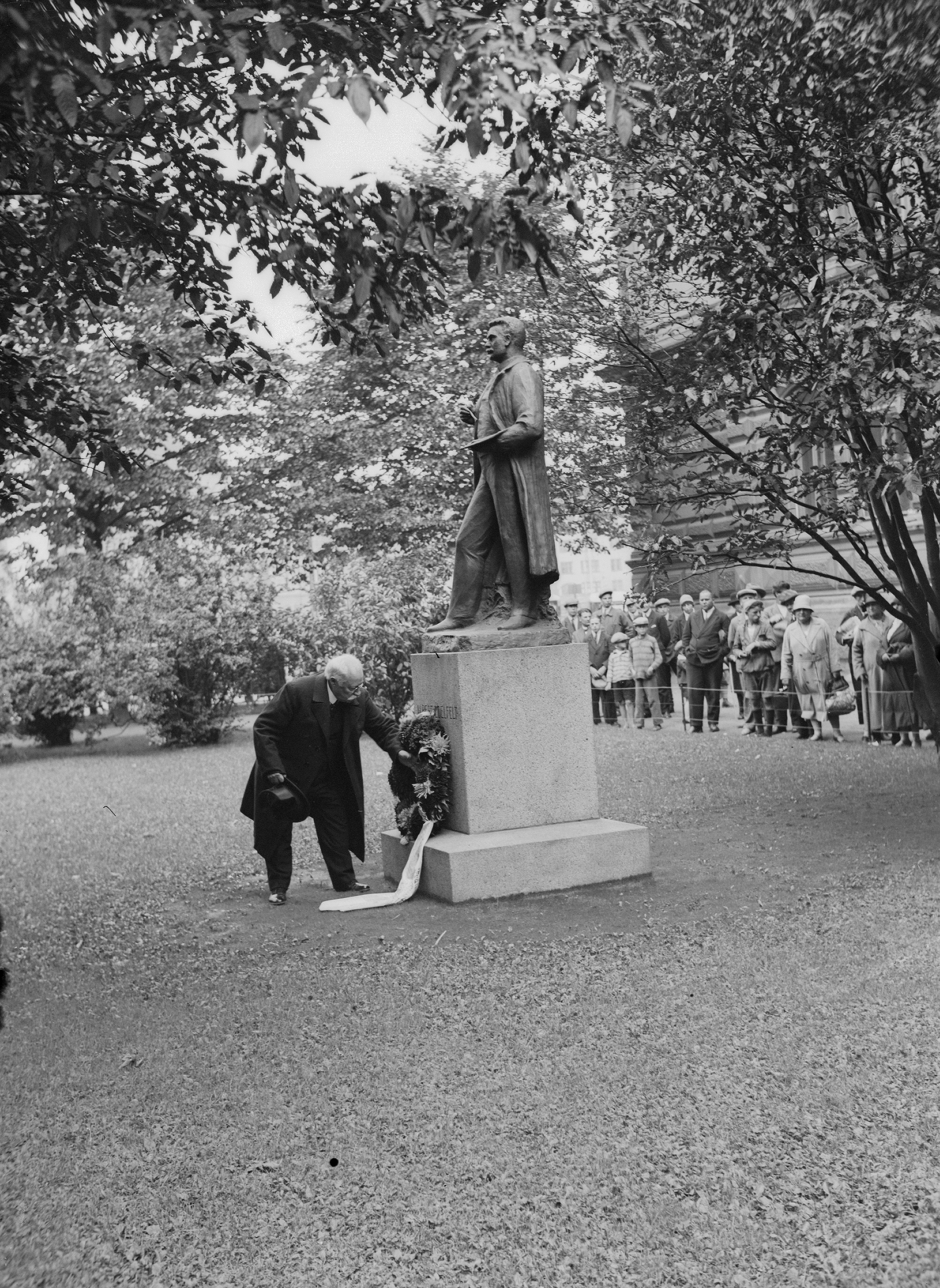 The statue was moved in 1930.